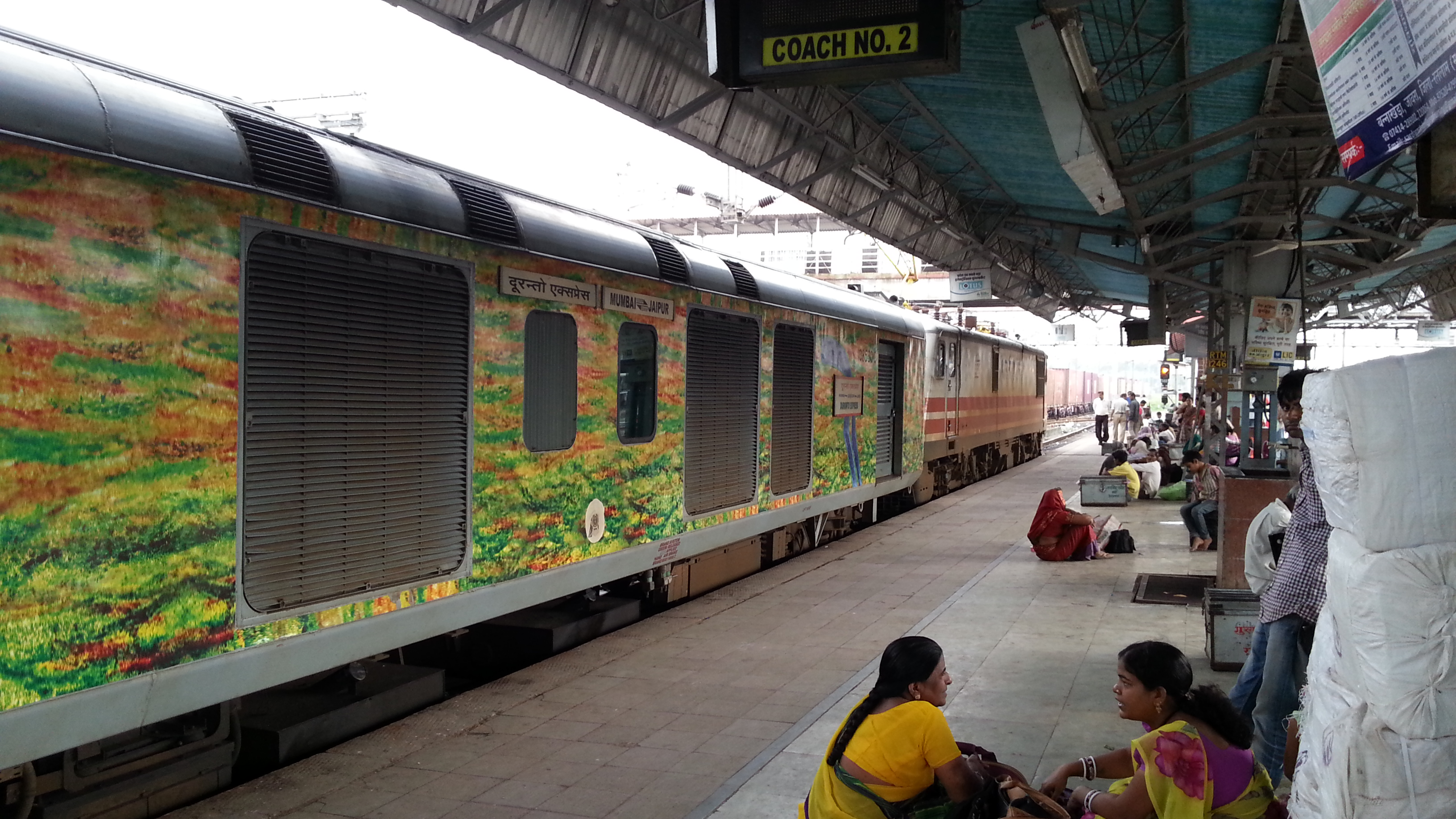 12239 Jaipur Duronto at Ratlam Junction with Vadodara WAP 5 Engine.